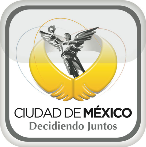 Federal District Logo for the period 2012-2018